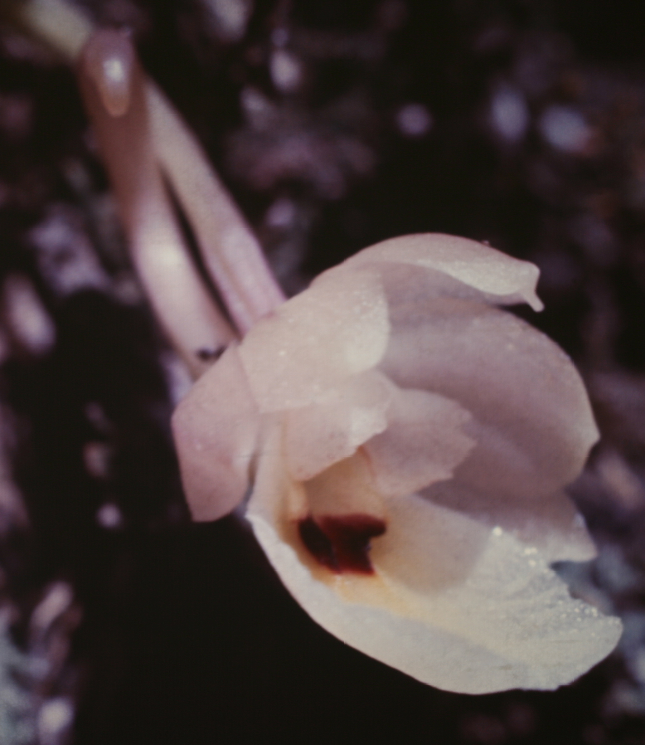 Trichocentrum cornucopiae. Found in Suriname, 1972-1982.